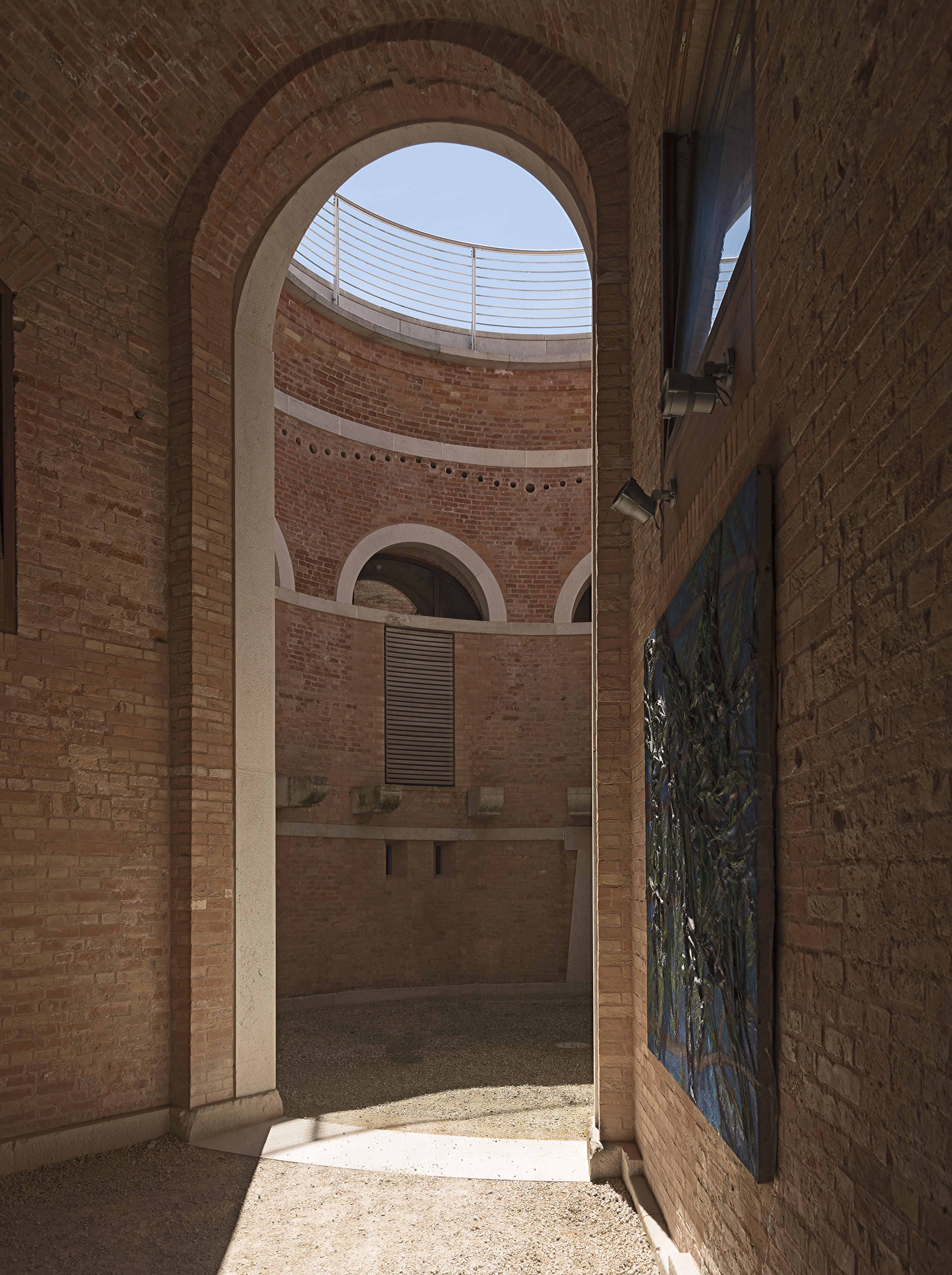 La Torre Massimiliana: is a nineteenth century fortress located on the island of Sant'Erasmo in the northern part of the lagoon of Venice in front of the tip of Lido. View of the courtyard.